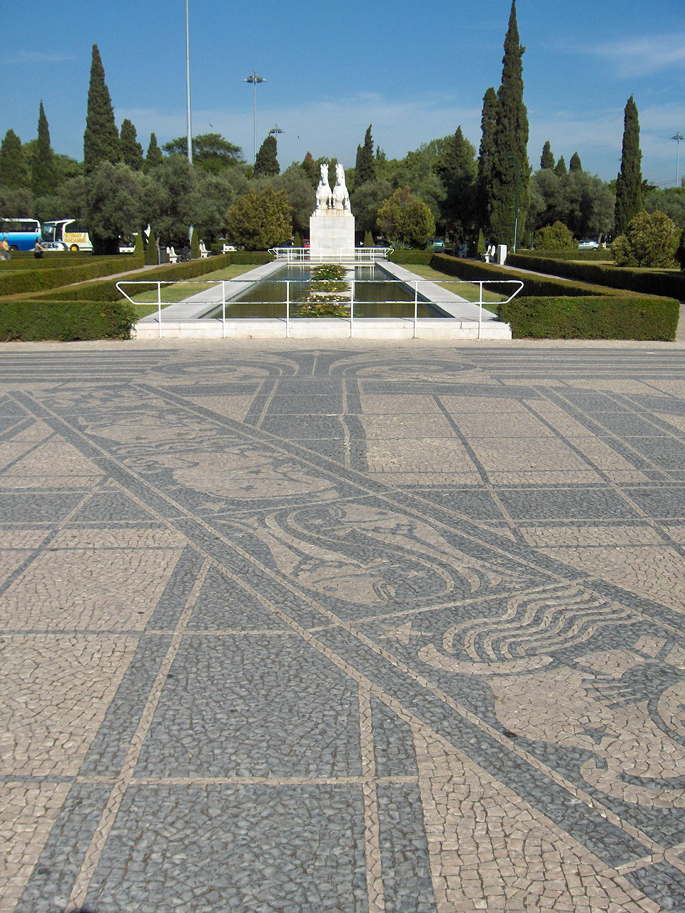 Praça do Império (with signs from the Zodiac) in front of the Jerónimos Monastery, Belém, Portugal